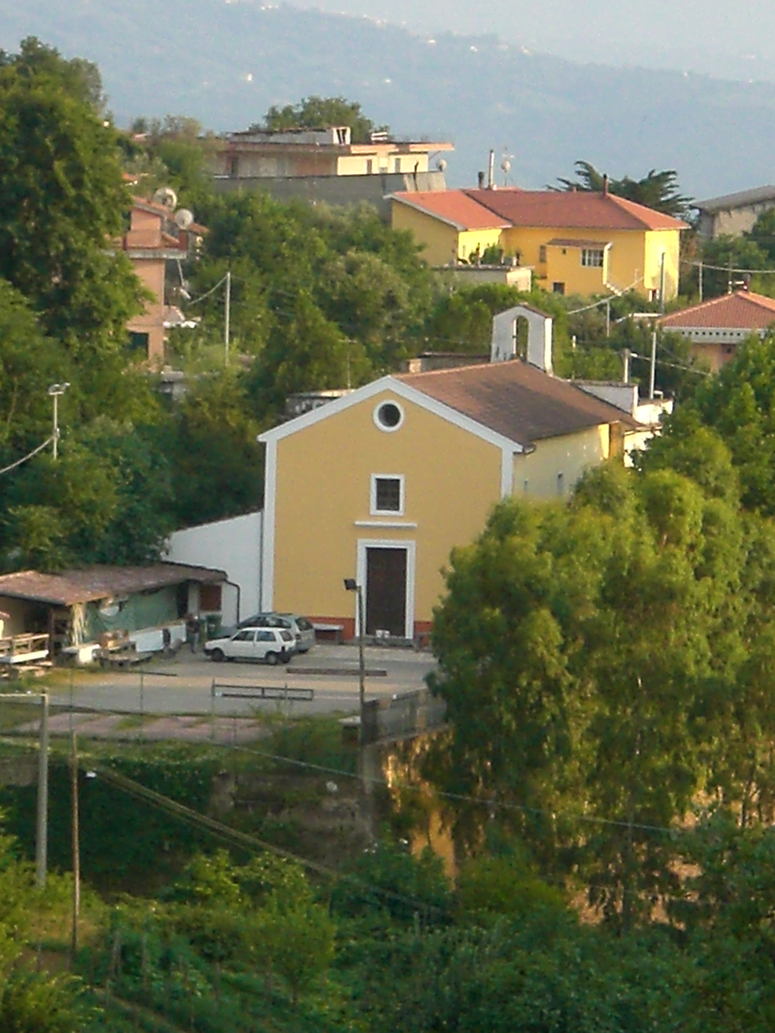 The old catholic church of Serradarce